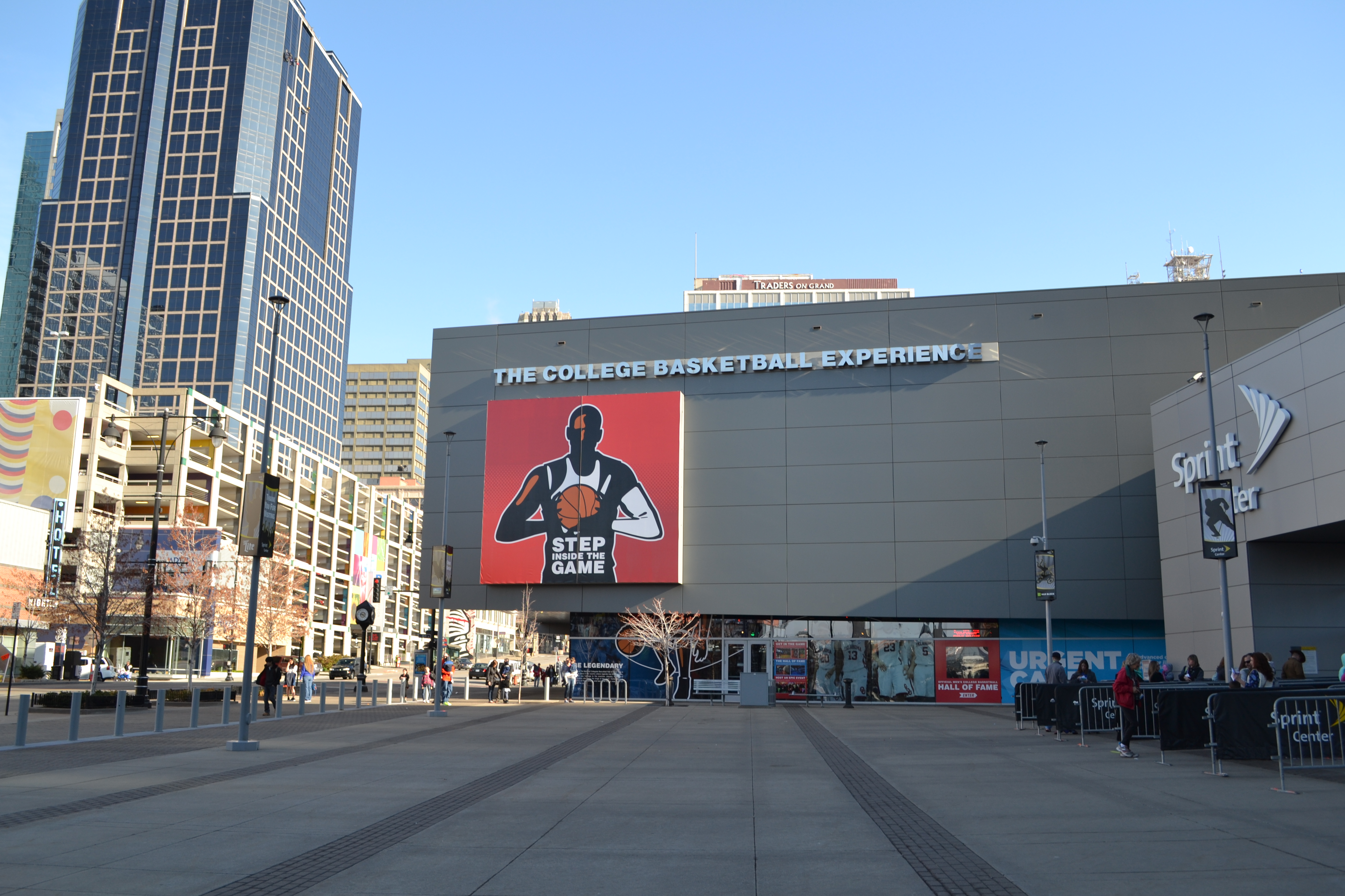 The College Basketball Experience exterior